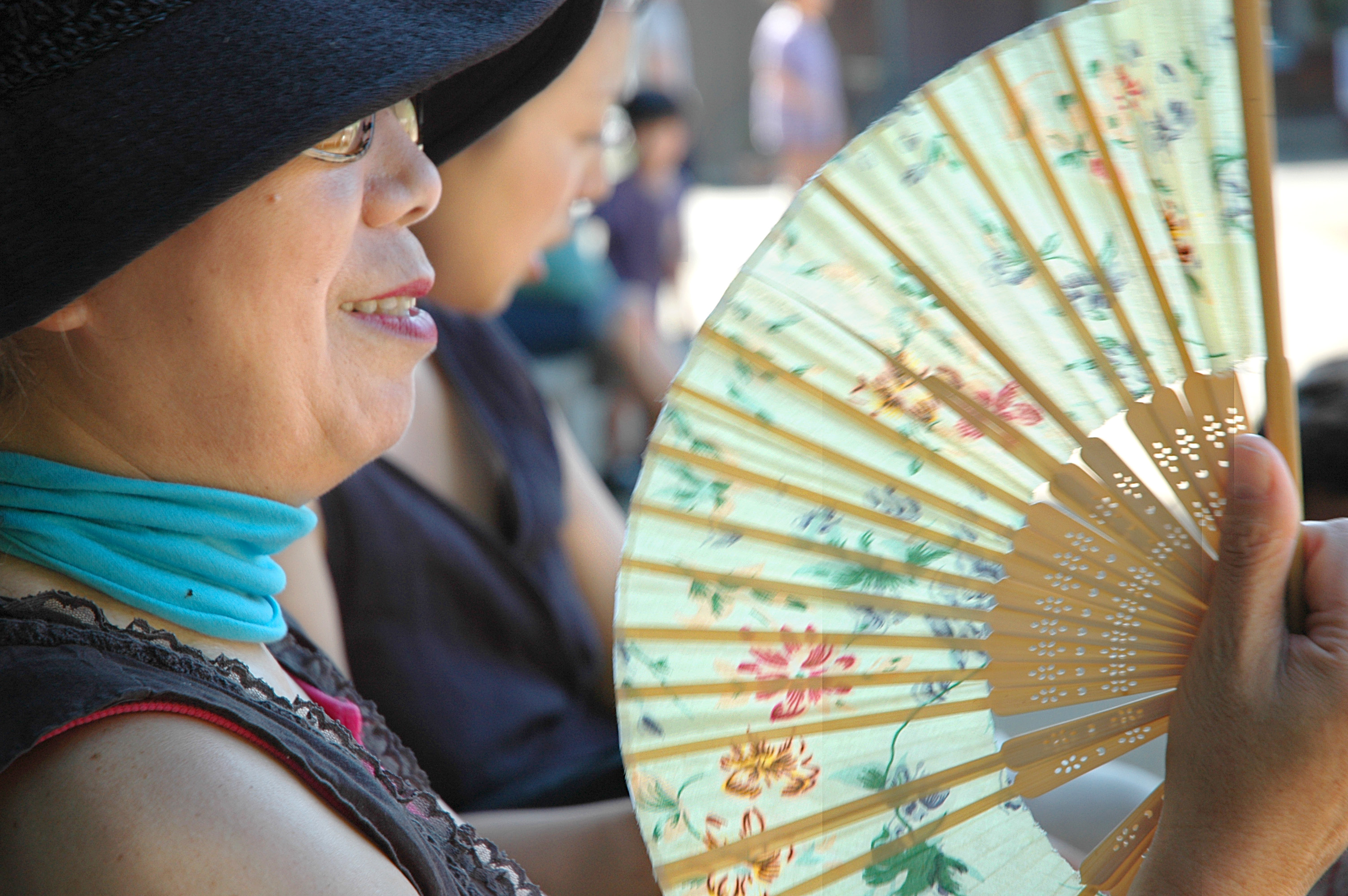 An old Japanese woman with a fan. Japanese obachan means an old woman or aunt, while obāchan with the longer vowel "ā" means a grandmother.